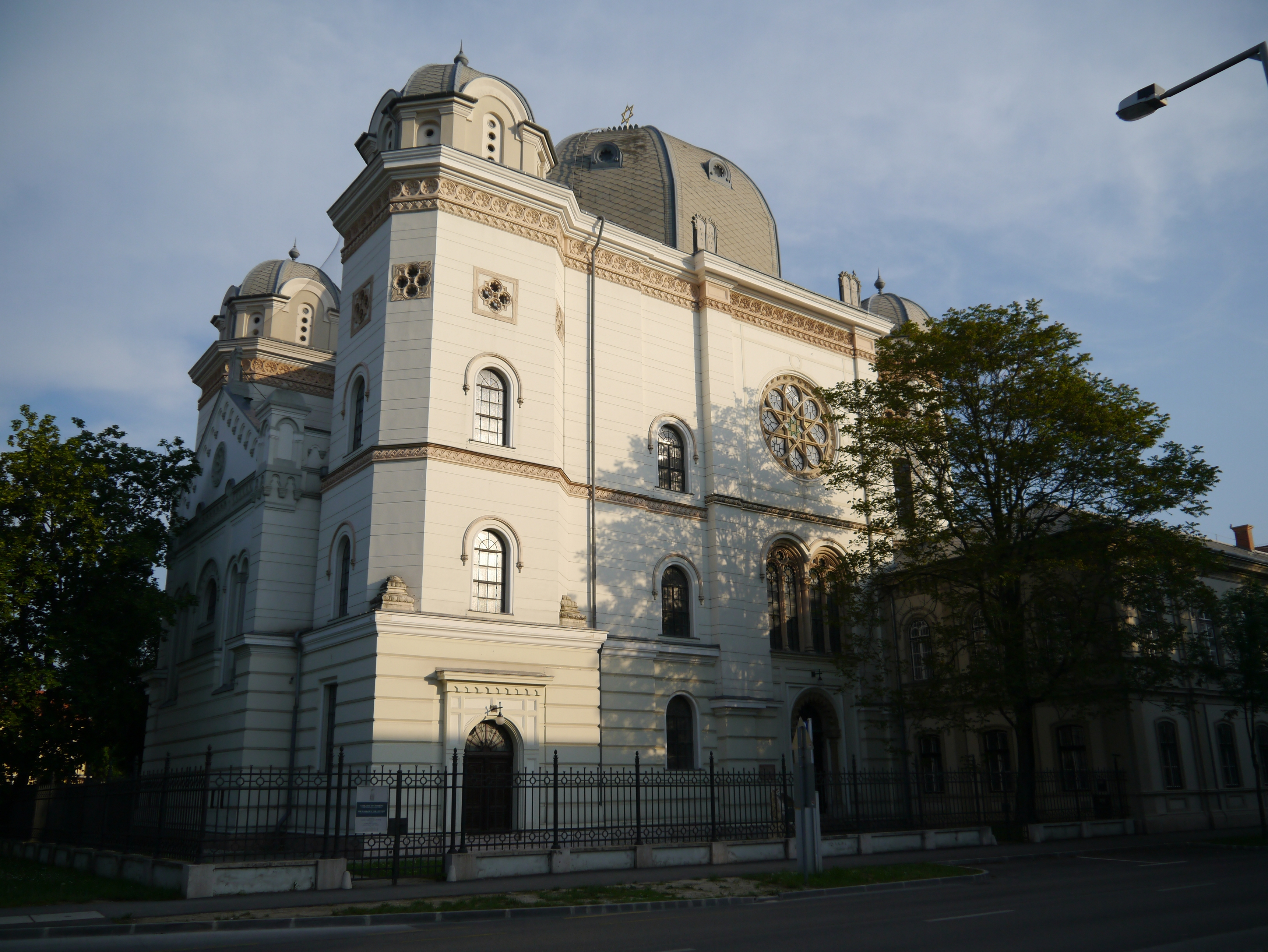 Synagogue, Györ, Western Hungary